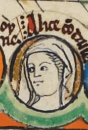 Alice (Alisa) of Normandy